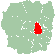 Location map of Arivonimamo region in Antananarivo province.